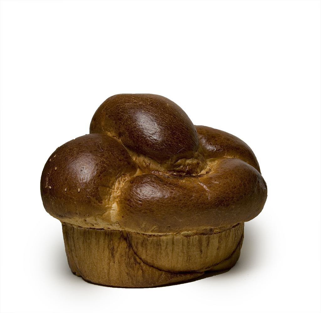 Challah, bilkel, from a Hasidic bakery in Williamsburg, New York.